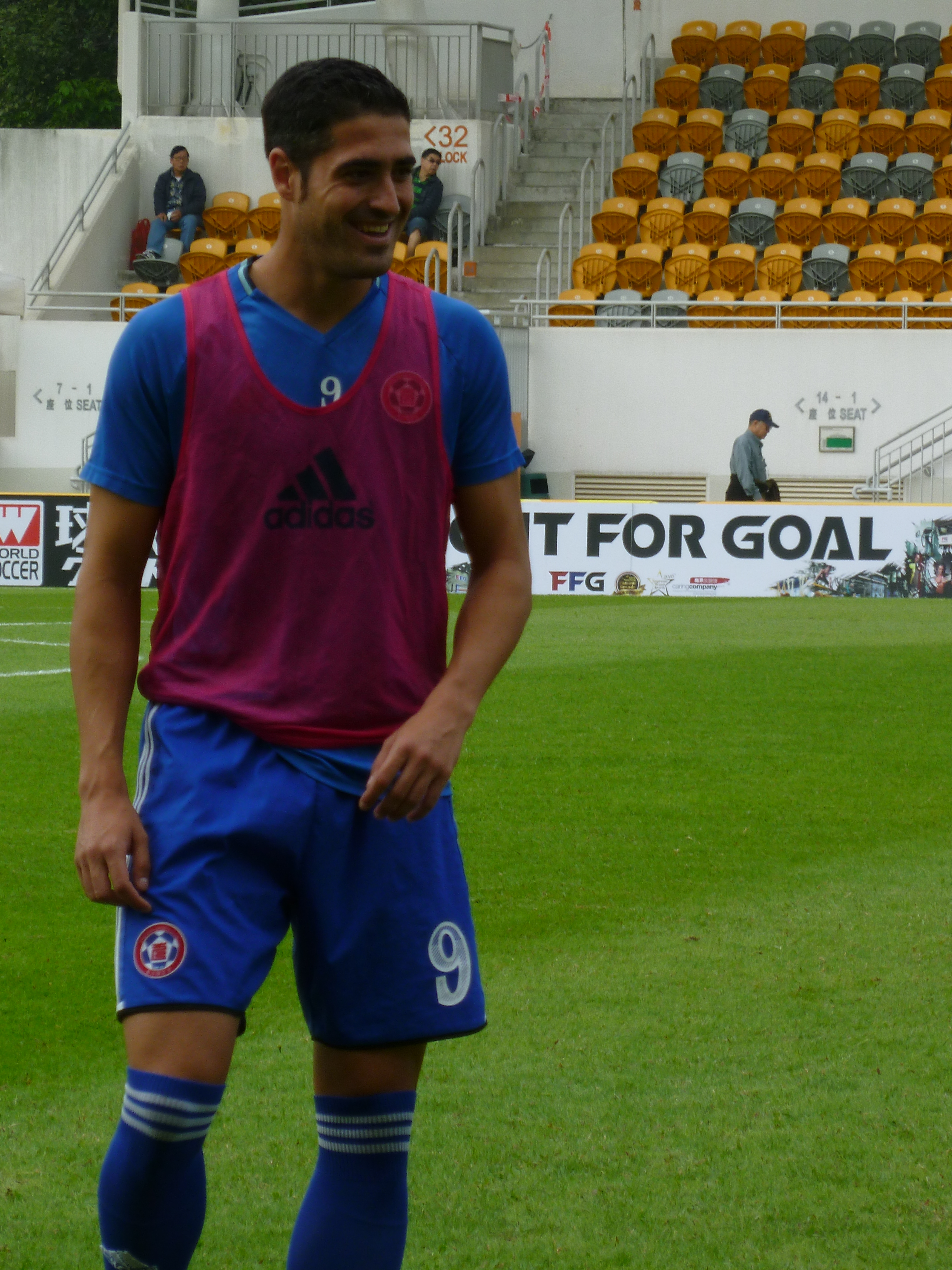 Manuel Bleda Rodríguez (26 Dec 2016, HKFA Senior Shield, Eastern vs Southern, Mong Kok Stadium) 中文（香港）: 洛迪古斯 (26 Dec 2016, 香港高級組銀牌準決賽, 東方vs南區, 旺角大球場)